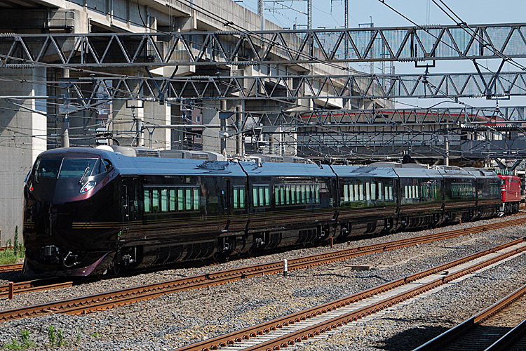 JR East E655 series royal/high-grade train. The 3rd car in this picture is a special car for royal persons only. E655系御料車・高級リゾート車両。手前から3両目が御料車。EF81に牽引されての試運転を後ろから撮影。(赤羽-尾久間にて)